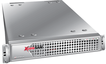 This is a product view of the XcelaSAN SAN Optimization Appliance